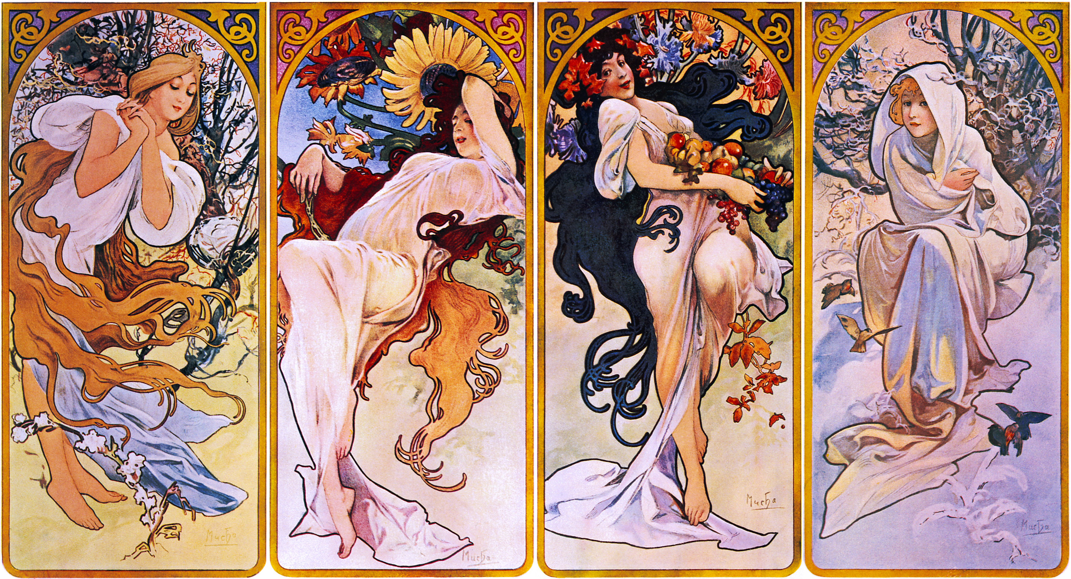 A series of “four seasons” by Alfons Mucha (but not his first series created in 1896); cropped print of four panels each depicting one of the four seasons personified by a woman, originally printed in circa 1897, and made into the “Chocolat Masson” and “Chocolat Mexican” Calendar of 1897.